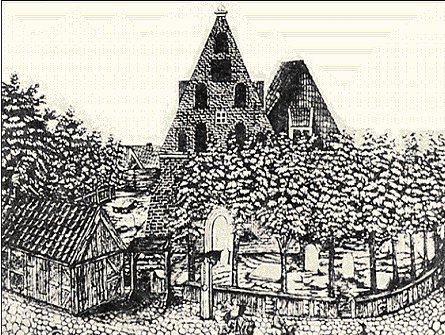 Church St. Nikolai 1823, Elmshorn, Germany